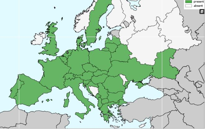 Rasprostranjenje vrste u Evropi (Fauna Europaea)